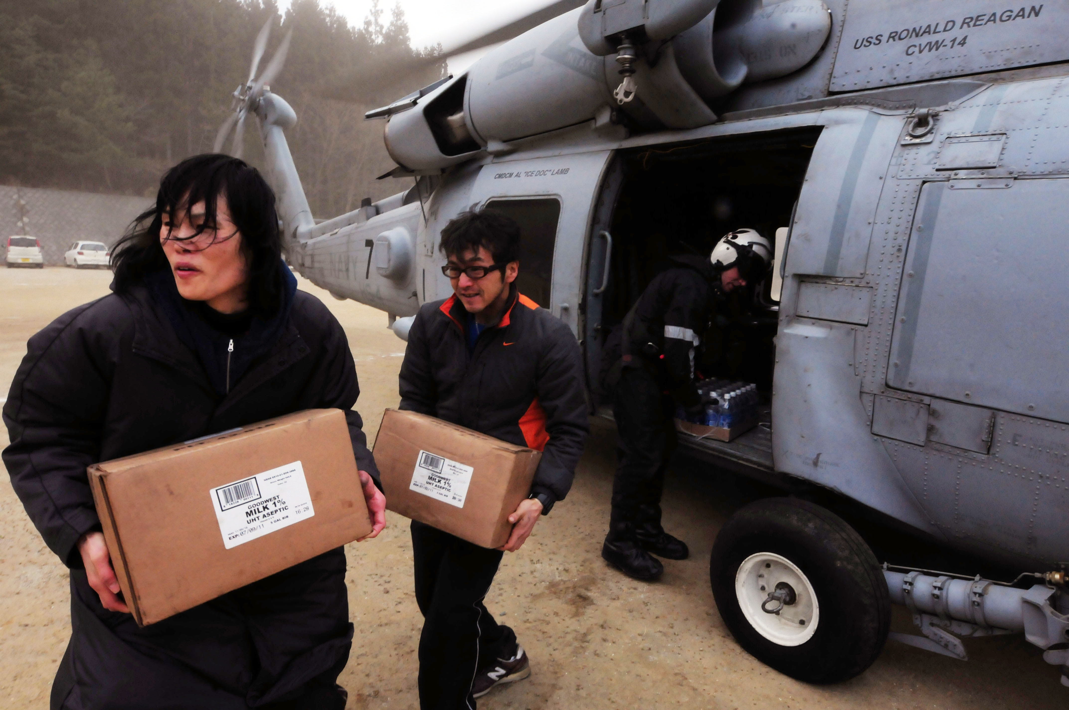 NORTHERN JAPAN (March 15, 2011) Japanese citizens move food and water out of an HH-60H Sea Hawk helicopter assigned to the Black Knights of Helicopter Anti-Submarine Squadron (HS) 4. Ships and aircraft from the Ronald Reagan Carrier Strike Group are conducting search and rescue operations and resupply missions as directed in support of Operation Tomodachi throughout northern Japan to render assistance in the aftermath of a 9.0 magnitude earthquake and subsequent tsunami. (U.S. Navy photo by Mass Communication Specialist 3rd Class Alexander Tidd/Released)